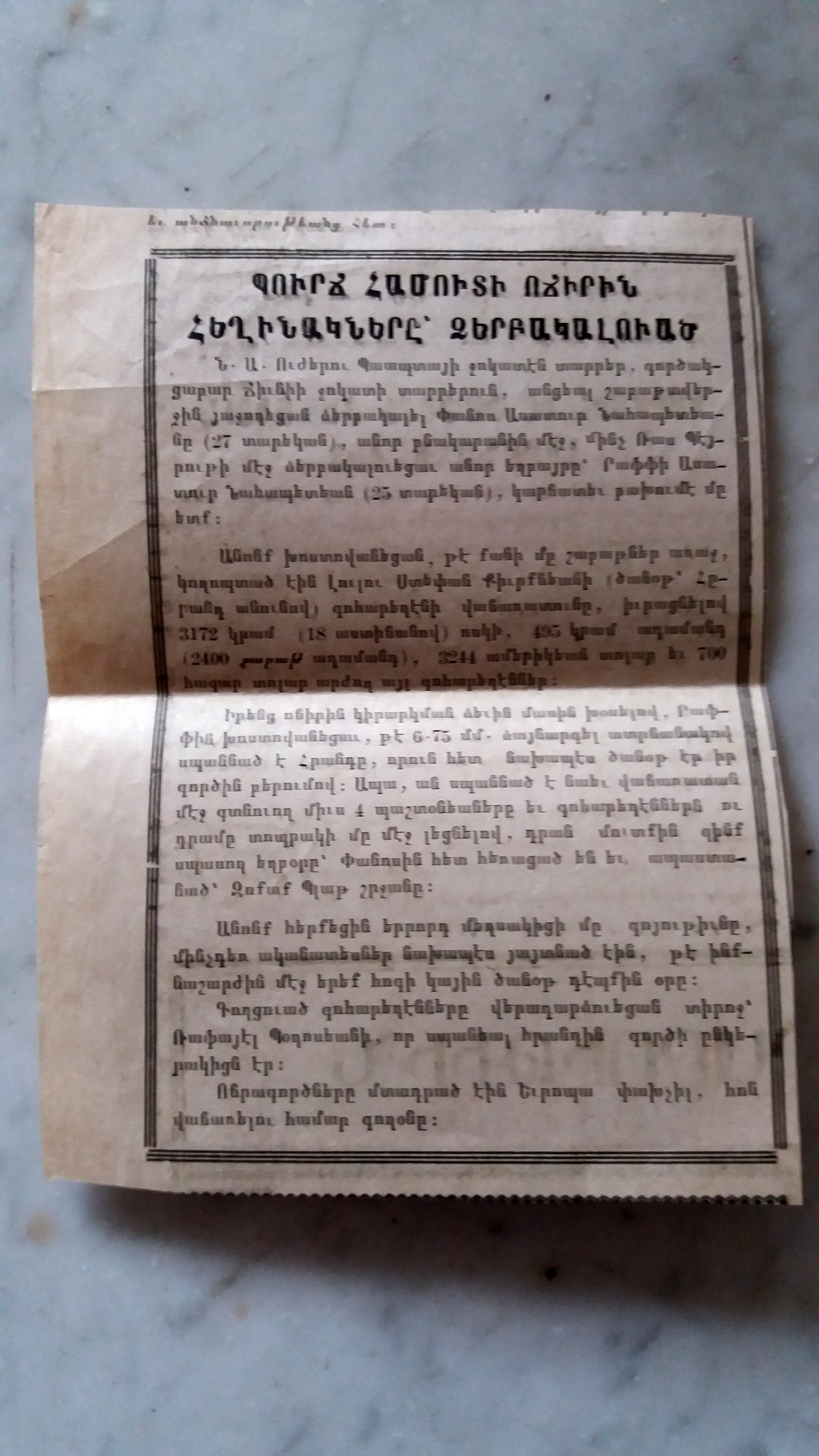 The news about the arrest of "The Bourj Hammoud Massacre" participants Raffi and Panos Nahabedians, as it appeared in the Lebanese-Armenian daily Aztag, April 14, 1985.